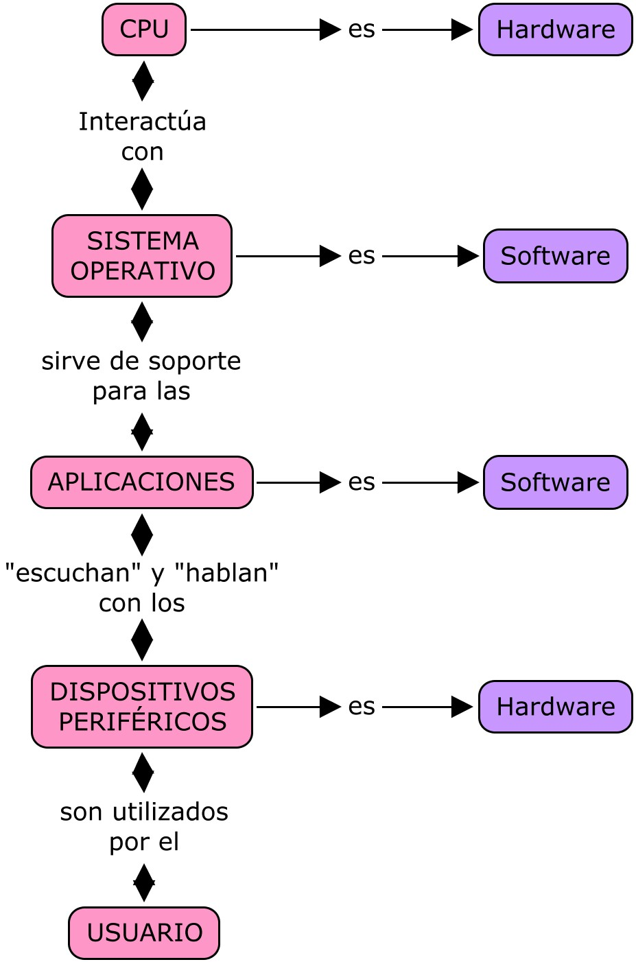 computer parts scheme.